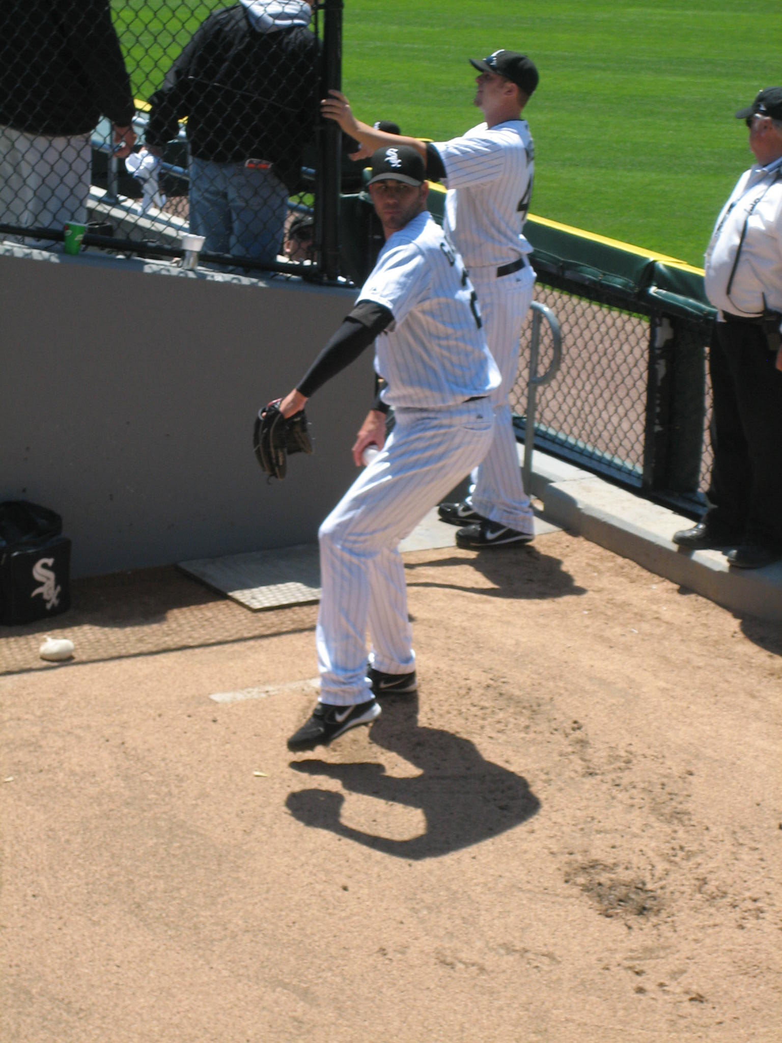 Jon Garland, Chicago White Sox pitcher. Warming in the bullpen before game vs. the New York Yankees at U.S. Cellular Field in Chicago, Illinois.